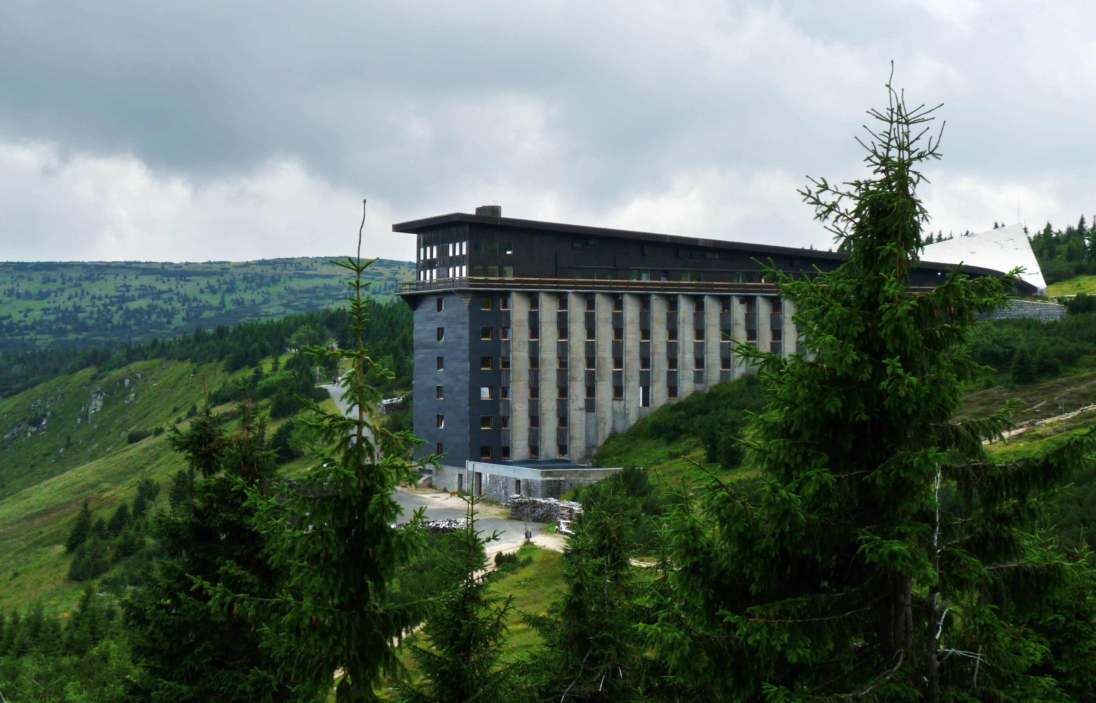 Labská bouda, a hotel in the Giant Mountains, Czech Republic.